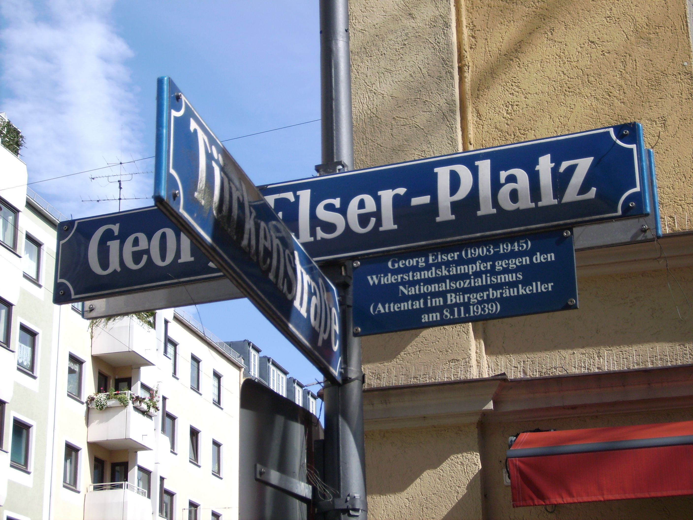 Georg-Elser-Platz in Munich, Germany. Translation of the Inscription: Georg Elser (1903-1945); Resistance fighter against National Socialism (Assassination in the Bürgerbräukeller on November, 8th 1939)